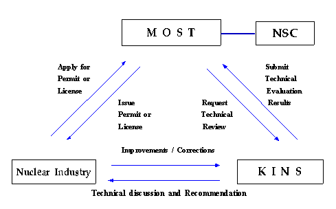 Diagram of interactions of South Korean nuclear agencies